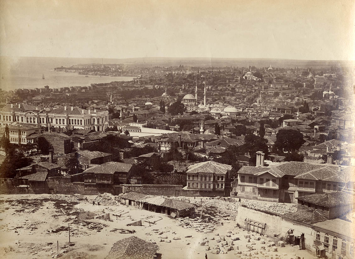 Abdullah brothers - View of Istanbul and the Laleli Camii; before the mosque: View of ramp leading into the royal lodge, looking west, before 1895.